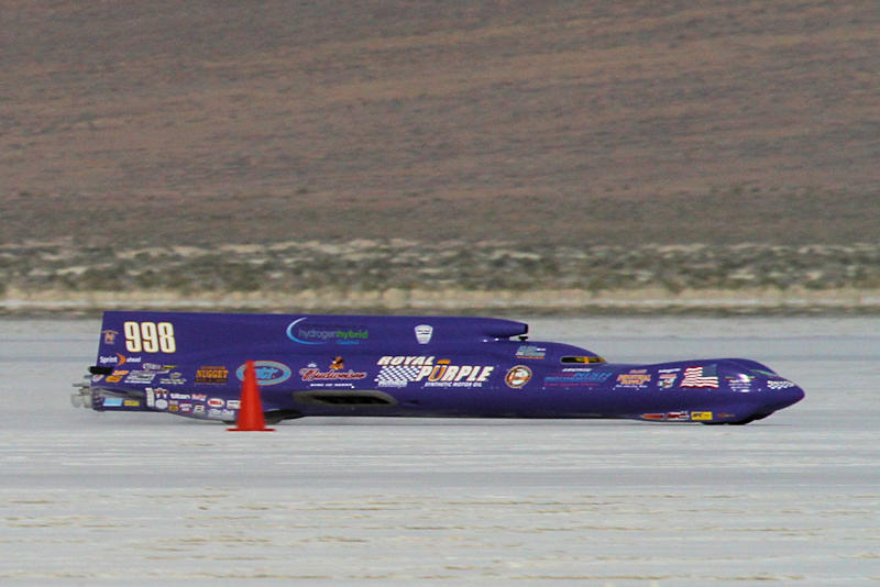 Mike Nish in the number 998 'Frankenstein' streamliner, Bonneville Salt Flats, October 2010